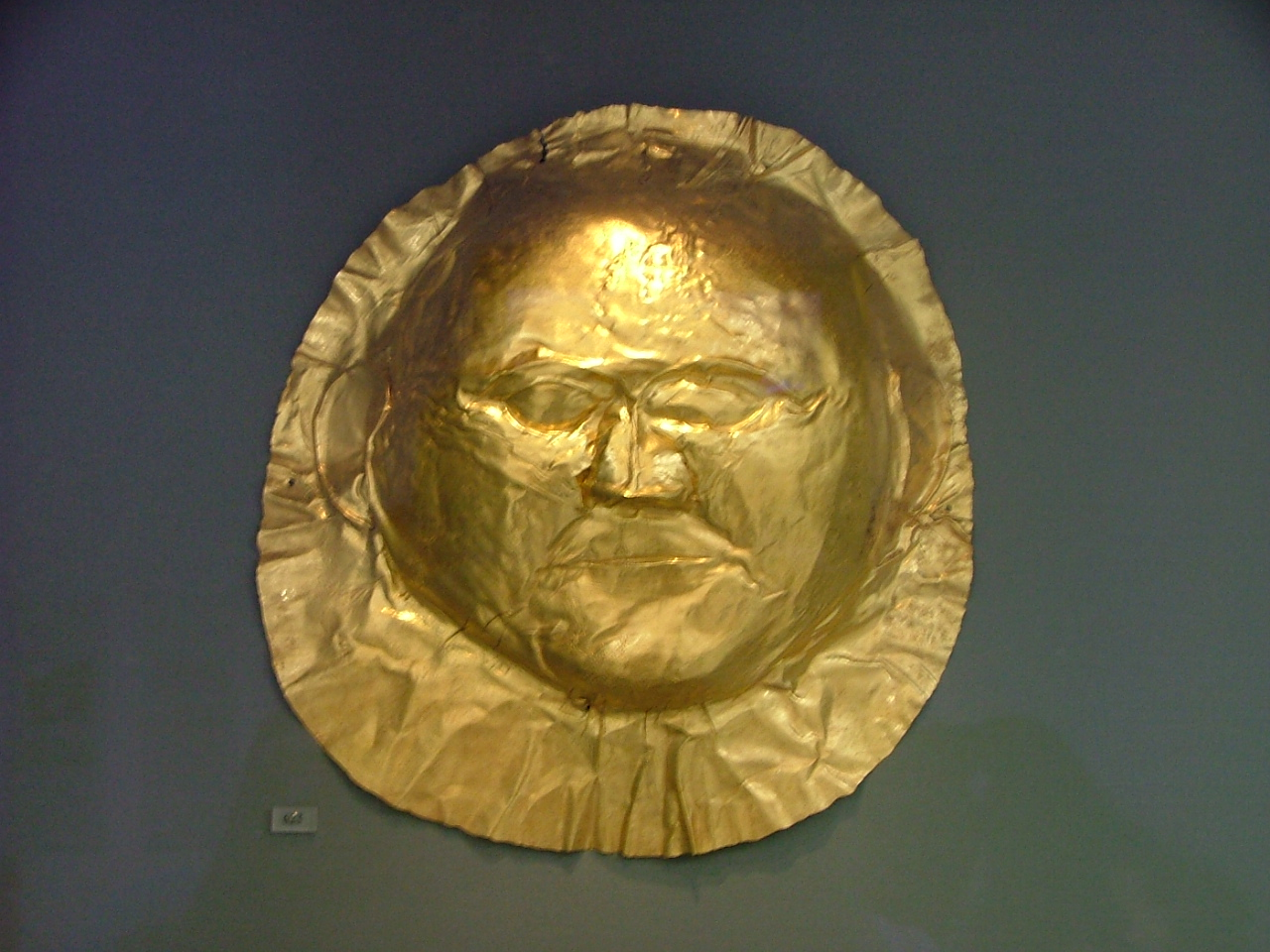 Gold male death-mask made of sheet metal with repoussé details portraying the deceased. Mycenae, 1600-1500 b.C. Exhibited in the National Archaeological Museum in Athens.